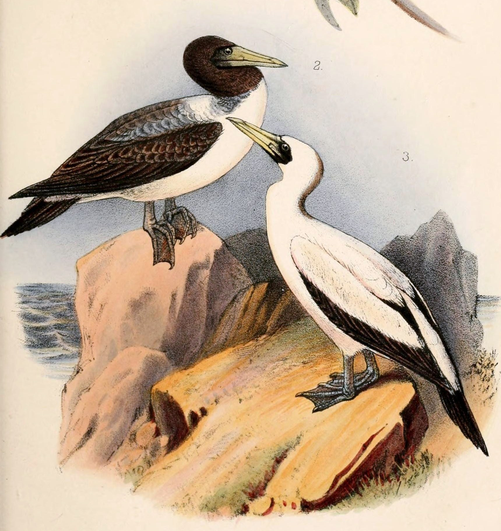 « Sula melanops » = Sula dactylatra melanops (Subspecies of Masked Booby)